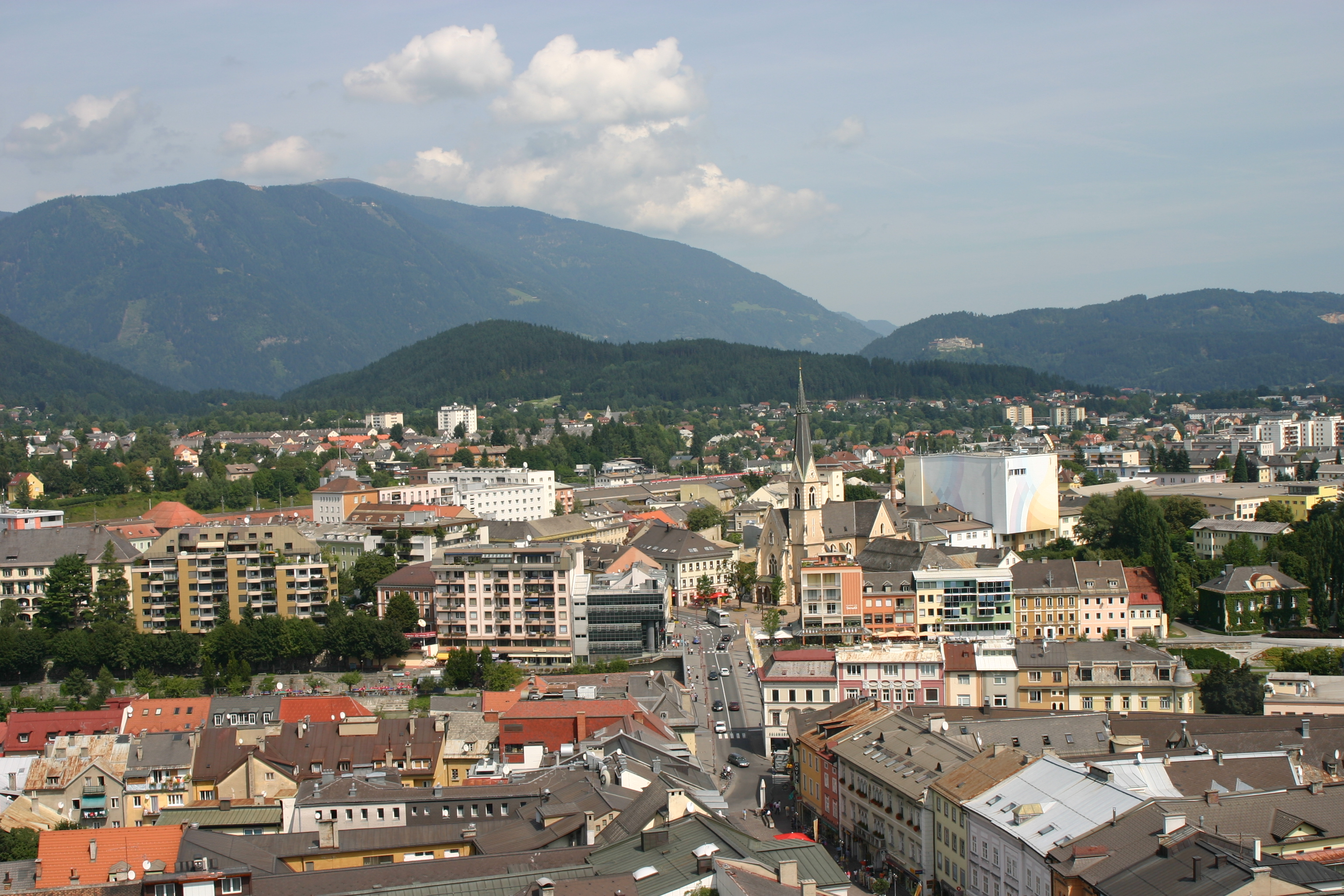 Description: Villach Source: Own photo, August 2005 Photographer: Philipp Steiner